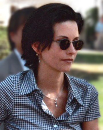 Courteney Cox meets fans at the rehearsal for the 1995 Emmy Awards - September 9, 1995